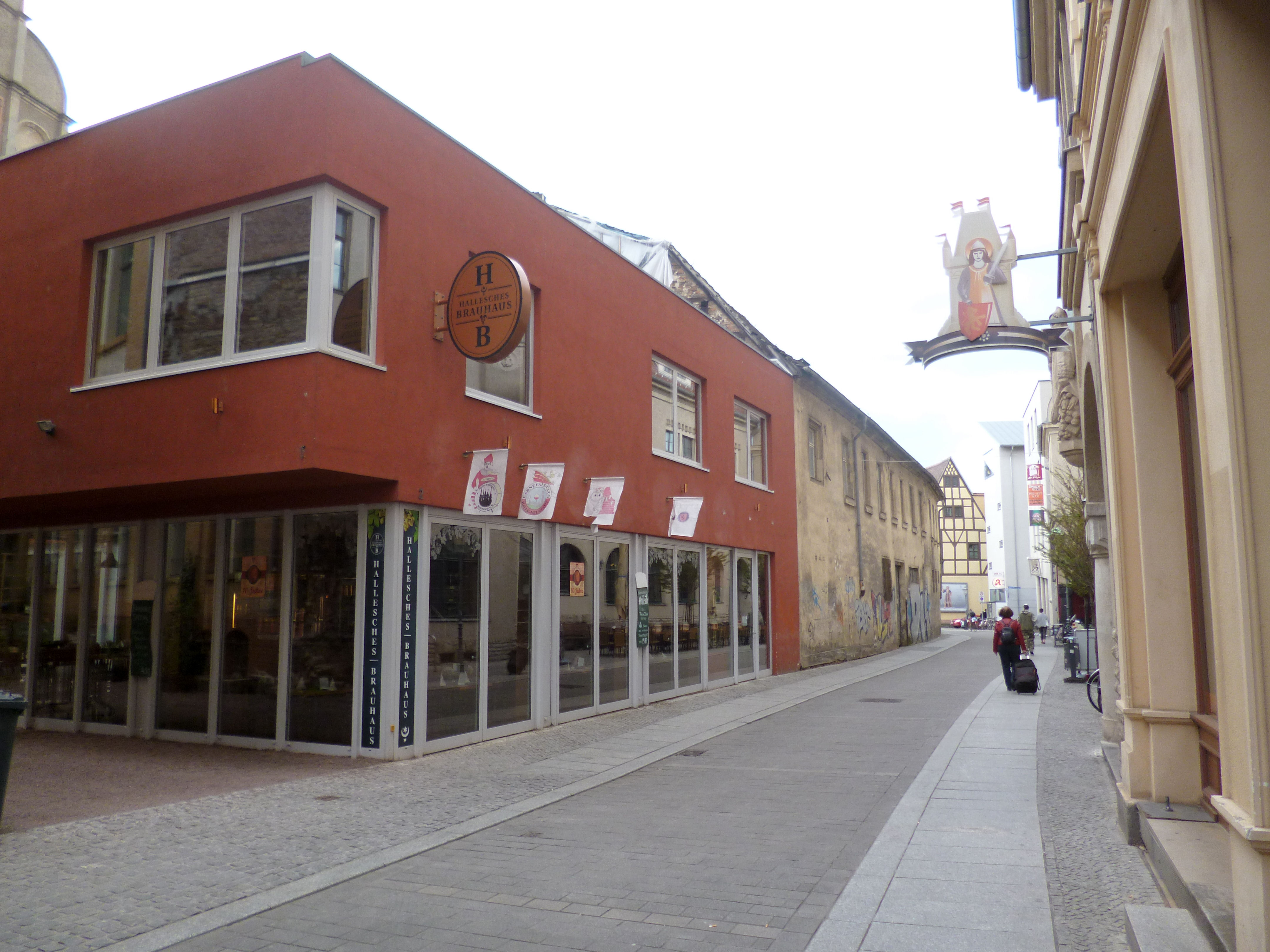 Grosse Nikolaistrasse in Halle (Saale) with the restaurant and brewery Hallesches Brauhaus